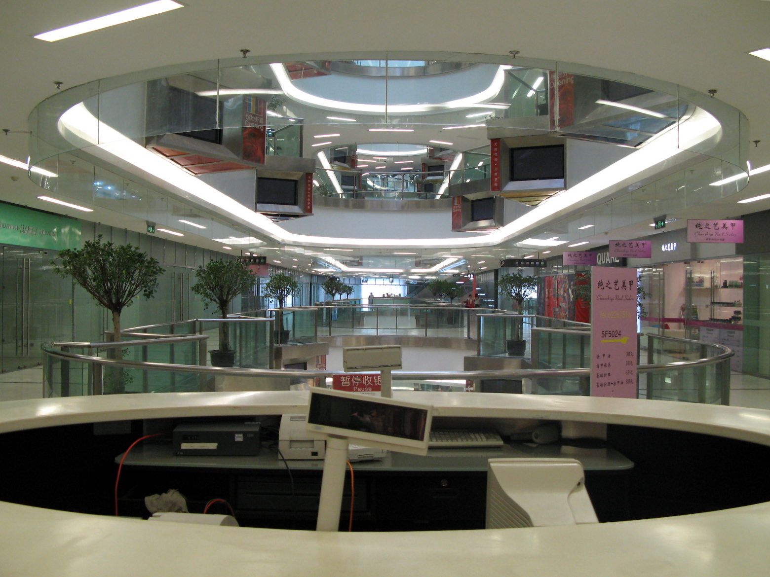 Vacant stores in Cloud Nine shopping mall.